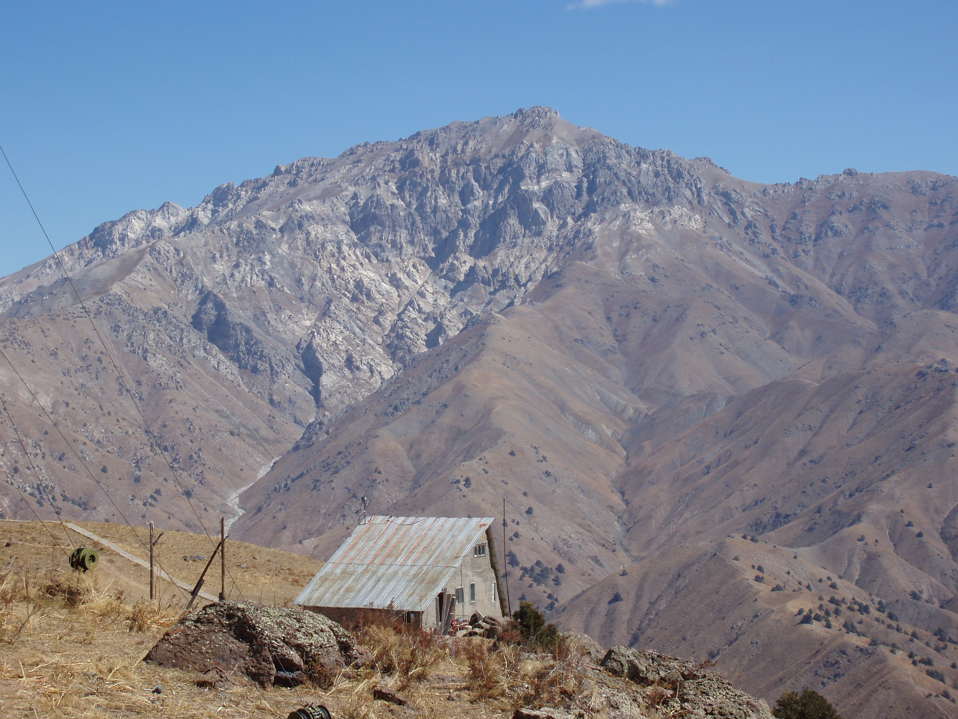 view from meteorological station on Kumbel mountain to Great Chimgan mountain (41°29′42″N 70°3′28″E / 41.495°N 70.05778°E)